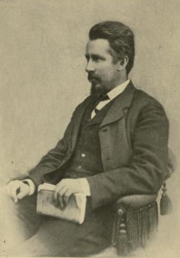 Edward Dowden (1843-1913) Photograph taking c.1874